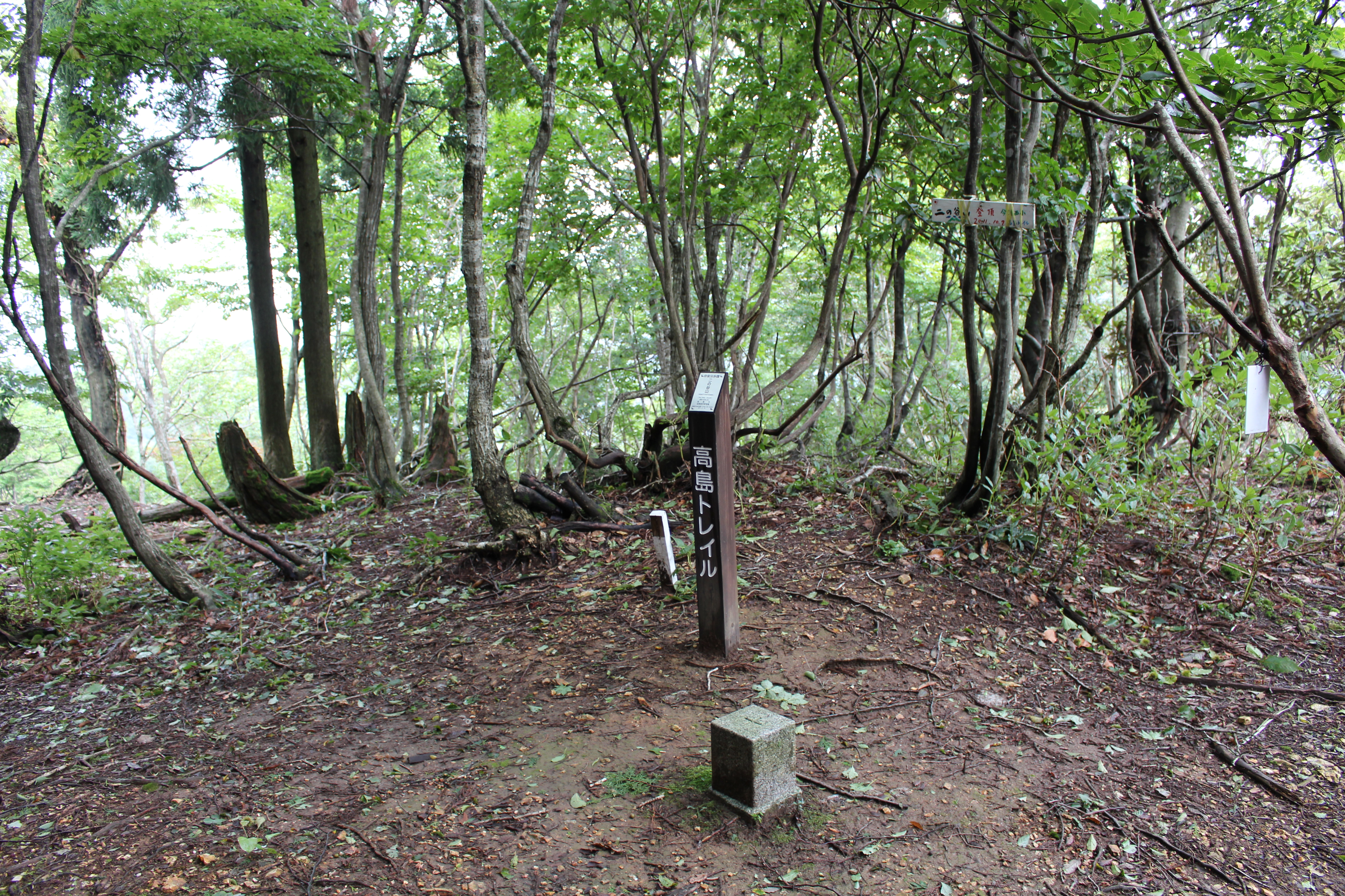 Peak of Mount Ninotani in Takashima, Shiga prefecture, Japan.